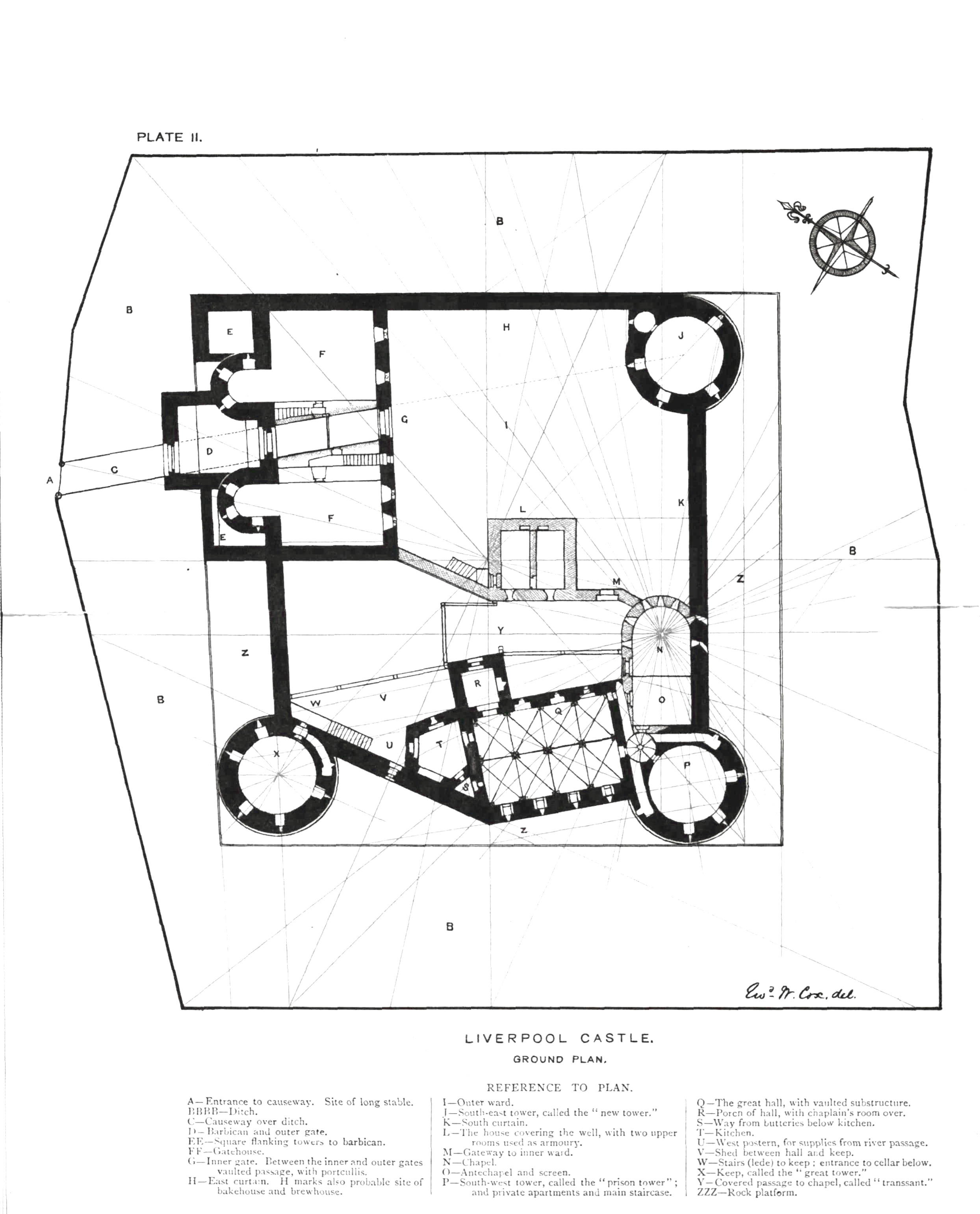 A plan of Liverpool Castle produced in 1892 by historian Edward Cox. The plan was created using authentic records and contemporary sources taken from the original, yellowing removed, retains legible text.